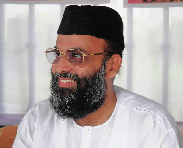 Profile photo of Abdu Nasser Mahdany, Politician from India